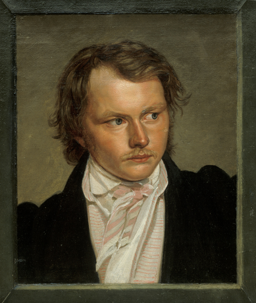 Selbstporträt. Ludwig v Maydell - Stenhausen EKM j 3389 M 2382